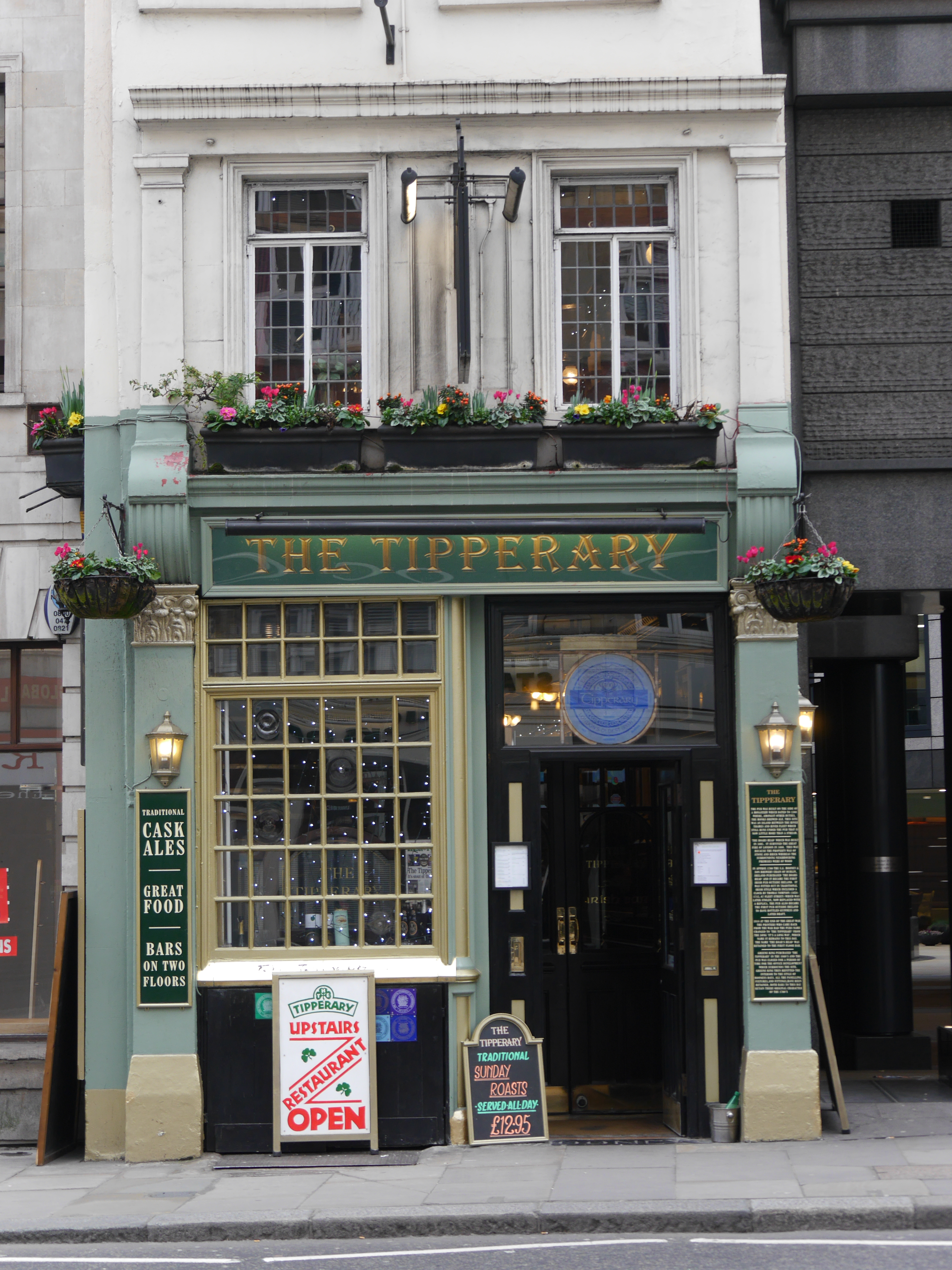 The Tipperary, London, January 2018